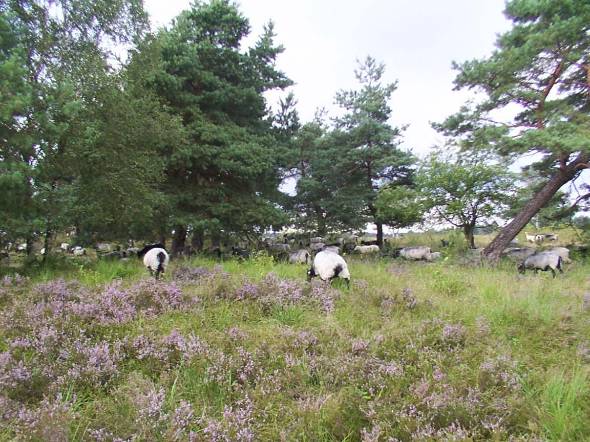 North German moorland sheep in the Senne, during flowering time of the heather, west of Bad Lippspringe.